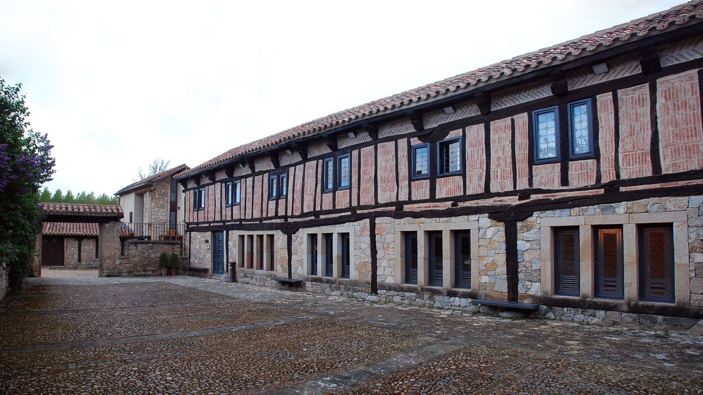 Inn of the Monastery of Santa María la Real in Aguilar de Campoo (Palencia, Castile and León).